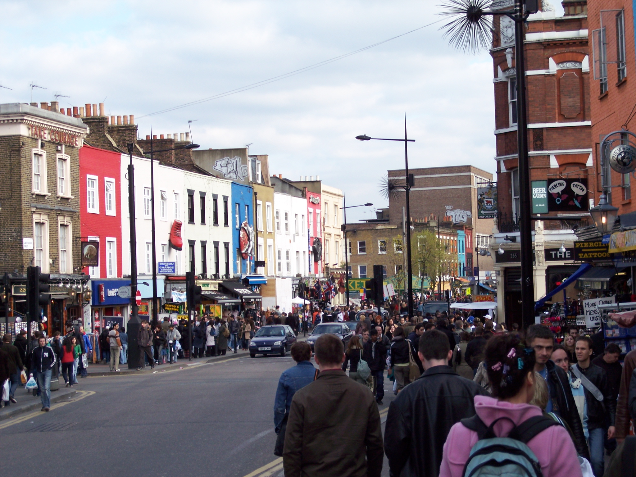 Camden High Street, from Chalk Farm Road, next to the popular Camden Lock Market, London, on a weekend afternoon.